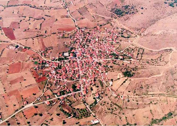 Pelekanos Village - Western Macedonia, Greece